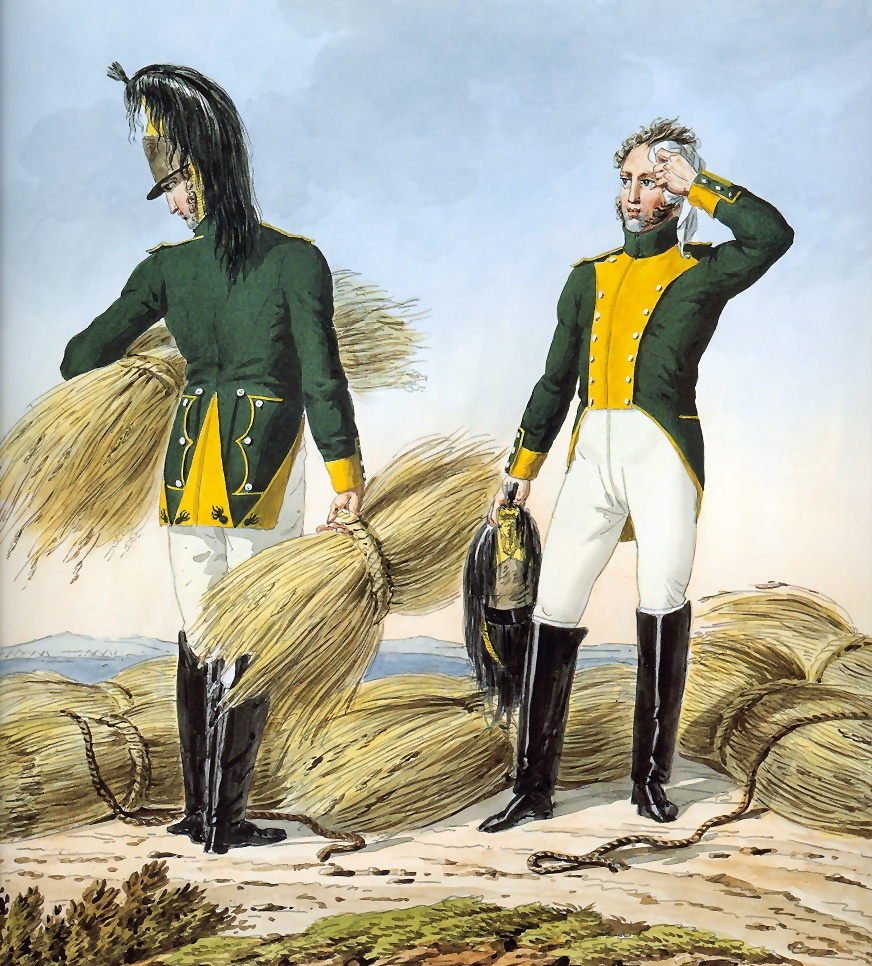 Part of a series chronicling the uniforms of Napoleon's Grande Armée.